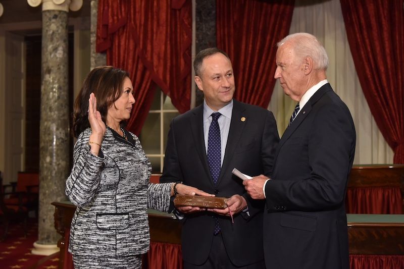 Kamala Harris takes oath of office as United States Senator by Vice President Joe Biden in January 3, 2017.